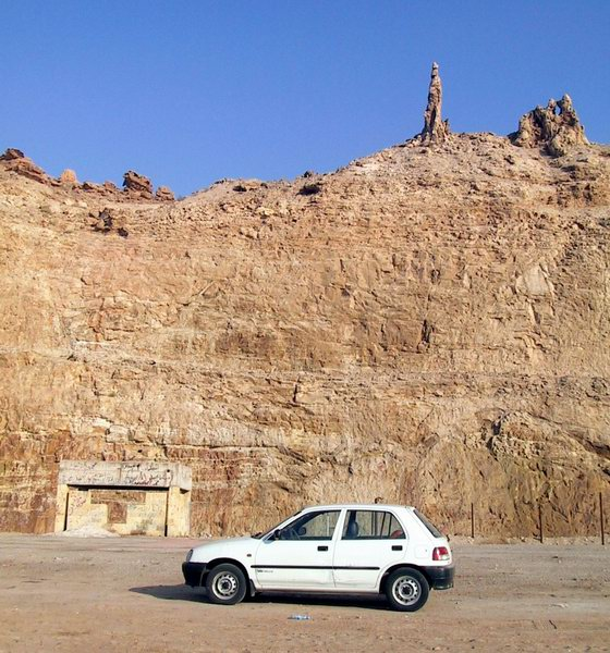 rock formation